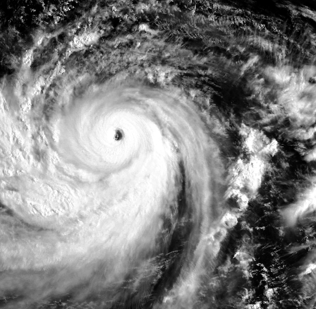 Super Typhoon Winnie on August 12, 1997.